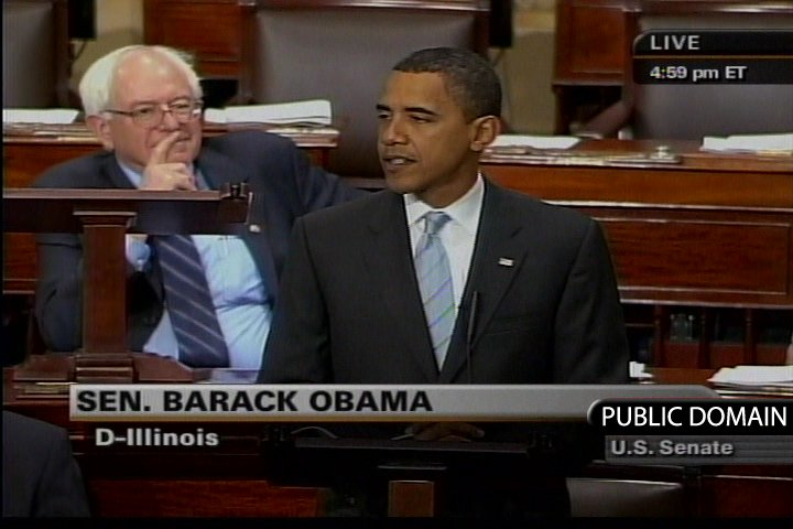 source metavid page with transcript